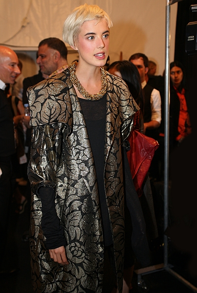 Agyness Deyn backstage at the Anna Sui fashion show.